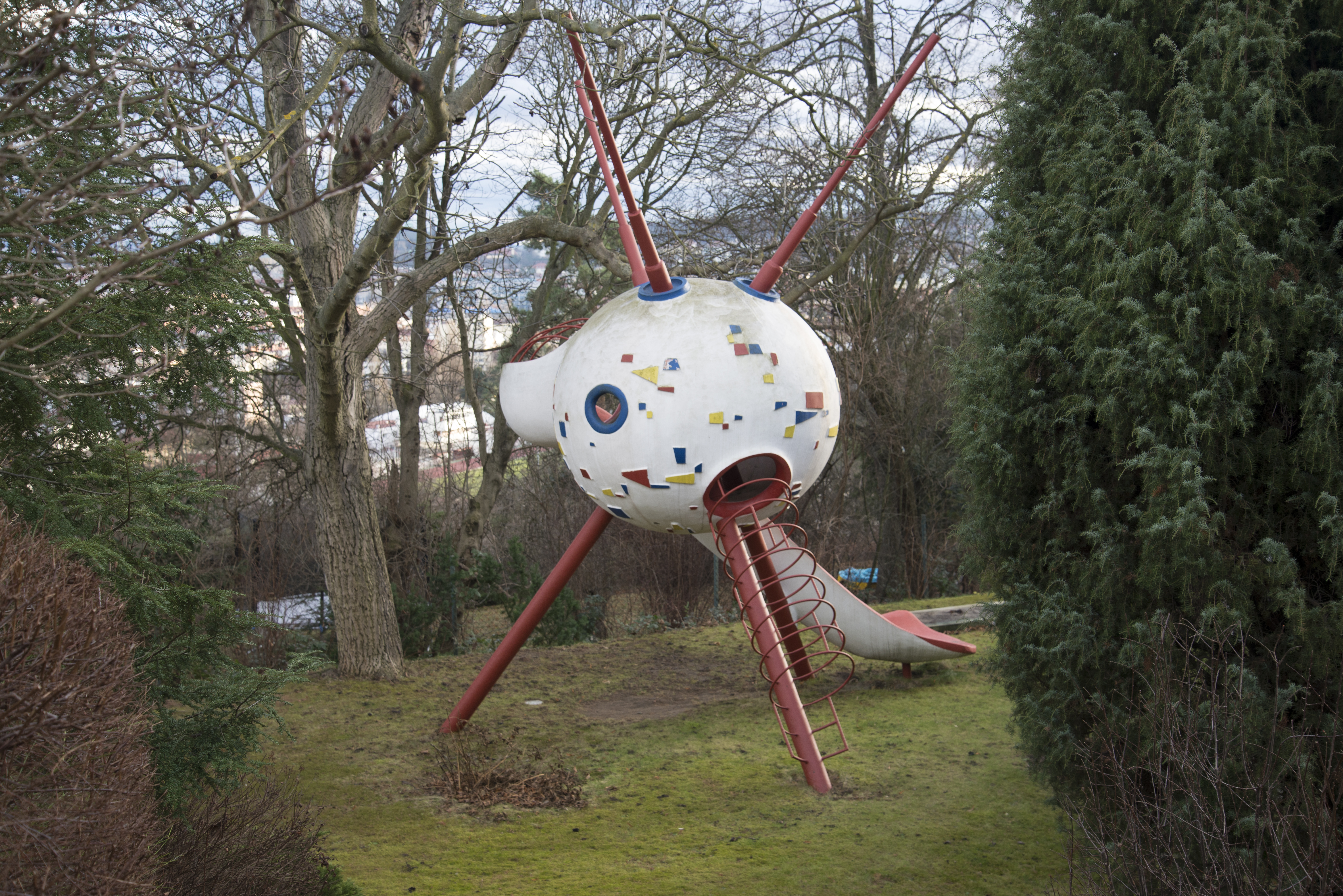 Osada Baba (Baba Functionalism colony in Prague) - Osada Baba - sculpture - climber - Sputnik, author is Zdeněk Němeček, from 60th of 20th century, originally it was located at playground in Stromovka park, in the garden of House Palička